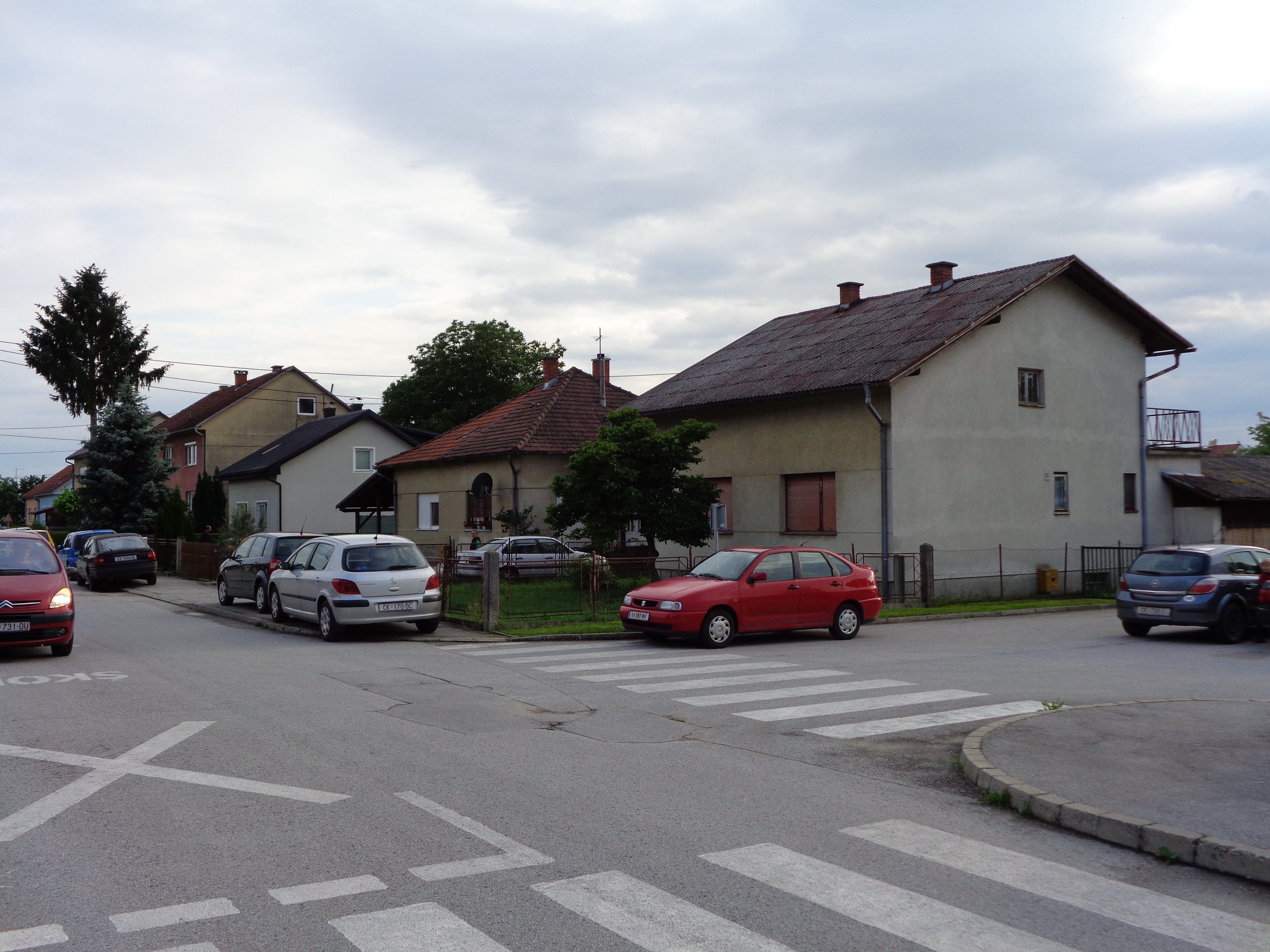 The Town of Mursko Središće, Croatia - Vladimir Nazor Street, west sideHrvatski: Grad Mursko Središće, Hrvatska - Ulica Vladimira Nazora, zapadna strana